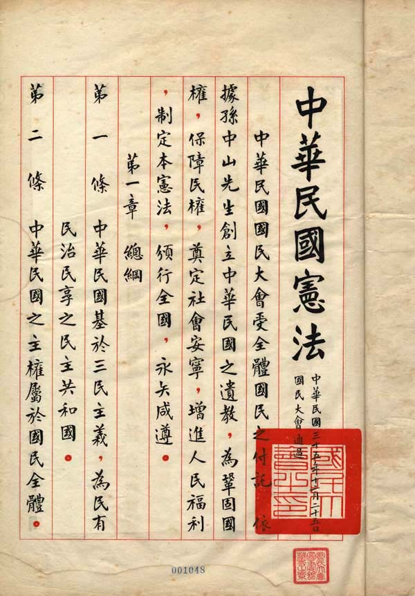 Constitution by 1946 National Assembly China at NankingBân-lâm-gú: Tiong-huâ-bîn-kok sann-tsa̍p-gōo-nî(1946-nî) Kok-bîn-tāi-huē thong-kuè ê hiàn-huat.中華民國三十五年(1946年)國民大會通過的憲法。